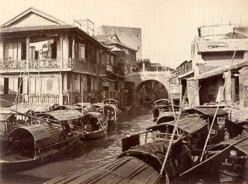 An inner river of Fuzhou and Fuzhou Tanka boats